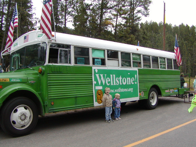 Taken by William Wesen on 09/25/2005 at Memorial Site